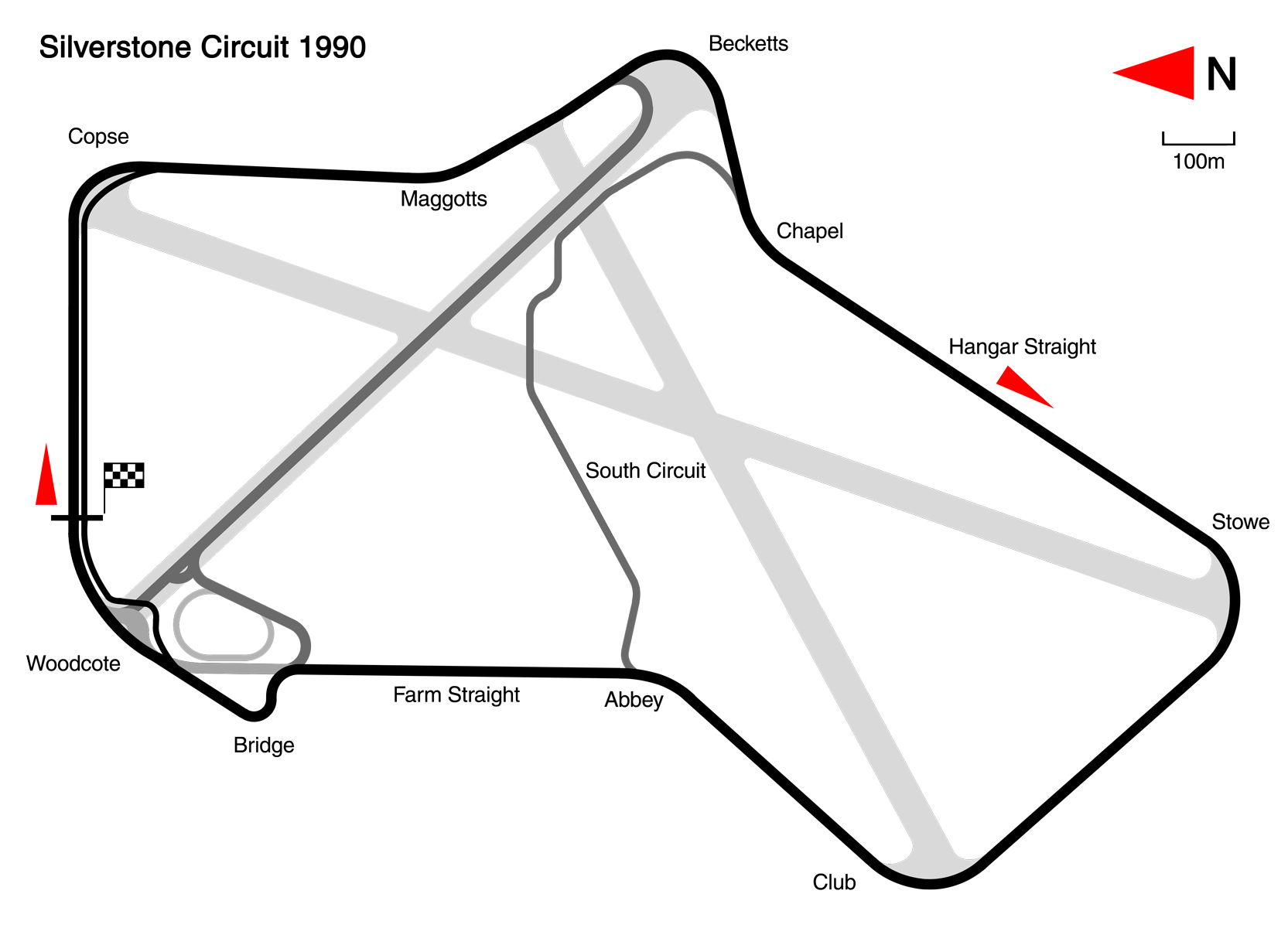 Track diagram of Silverstone Circuit in the UK in 1990 configuration. Made to scale from aerial photographs.